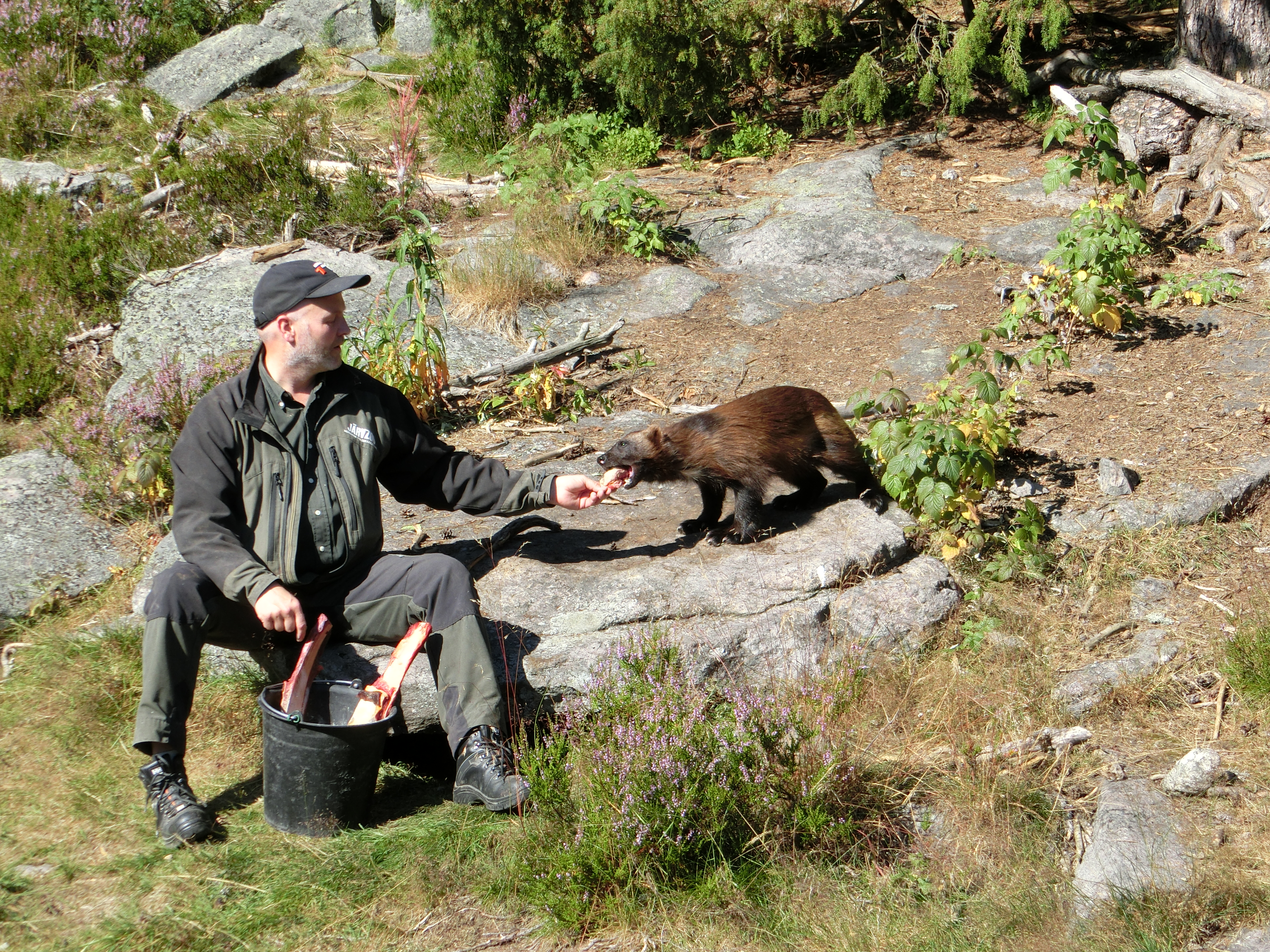 A wolverine in being fed a piece of meat. In Järvzoo, zoo in Järvsö, Sweden. Photo taken on 2015-08-22.